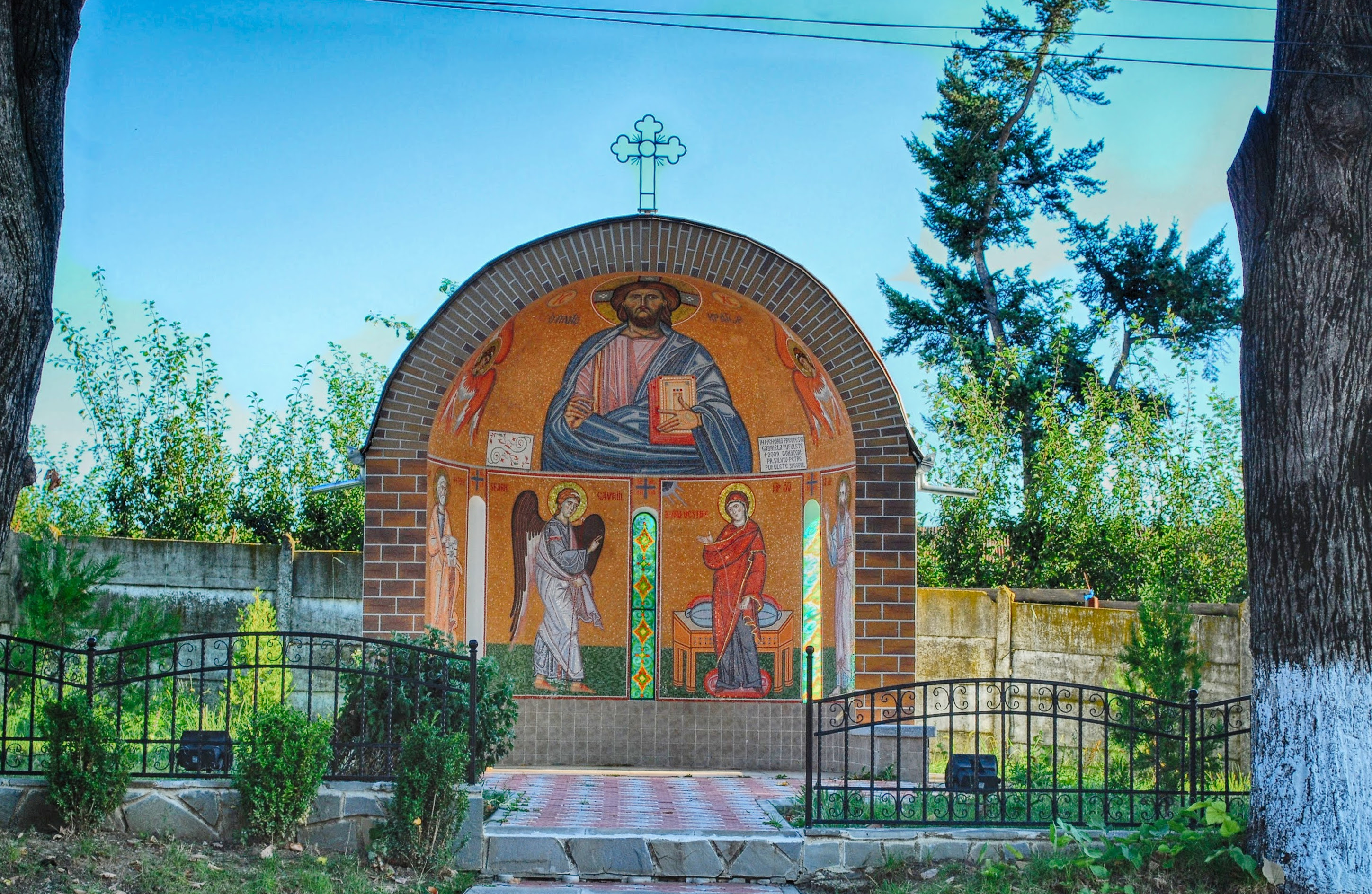 What is left from the 1812 church of the Holy Archangels, in Boldești-Scăeni, Prahova County, Romania. The church was destroyed by an earthquake in 1977.